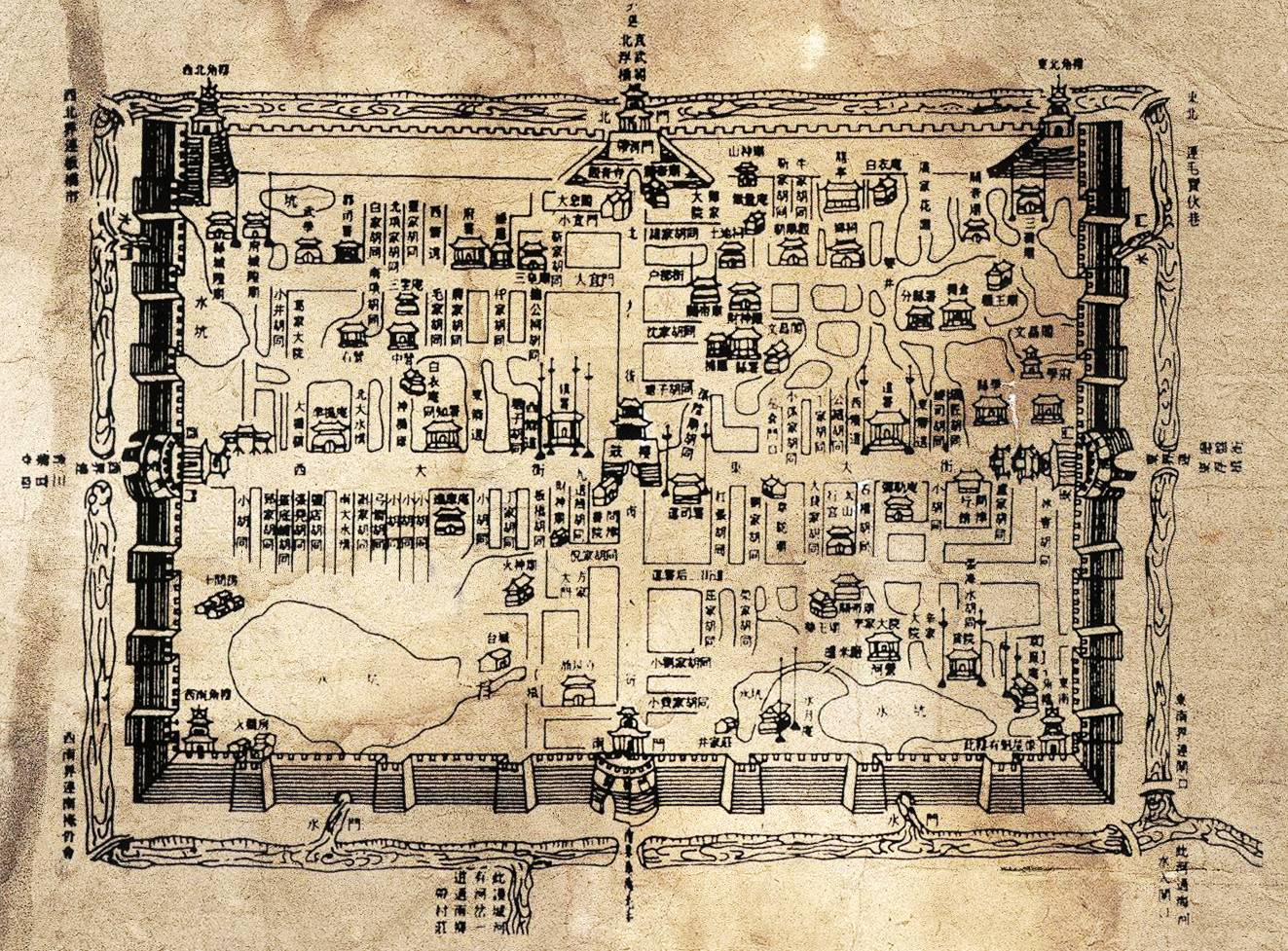 Old map of Tianjin City